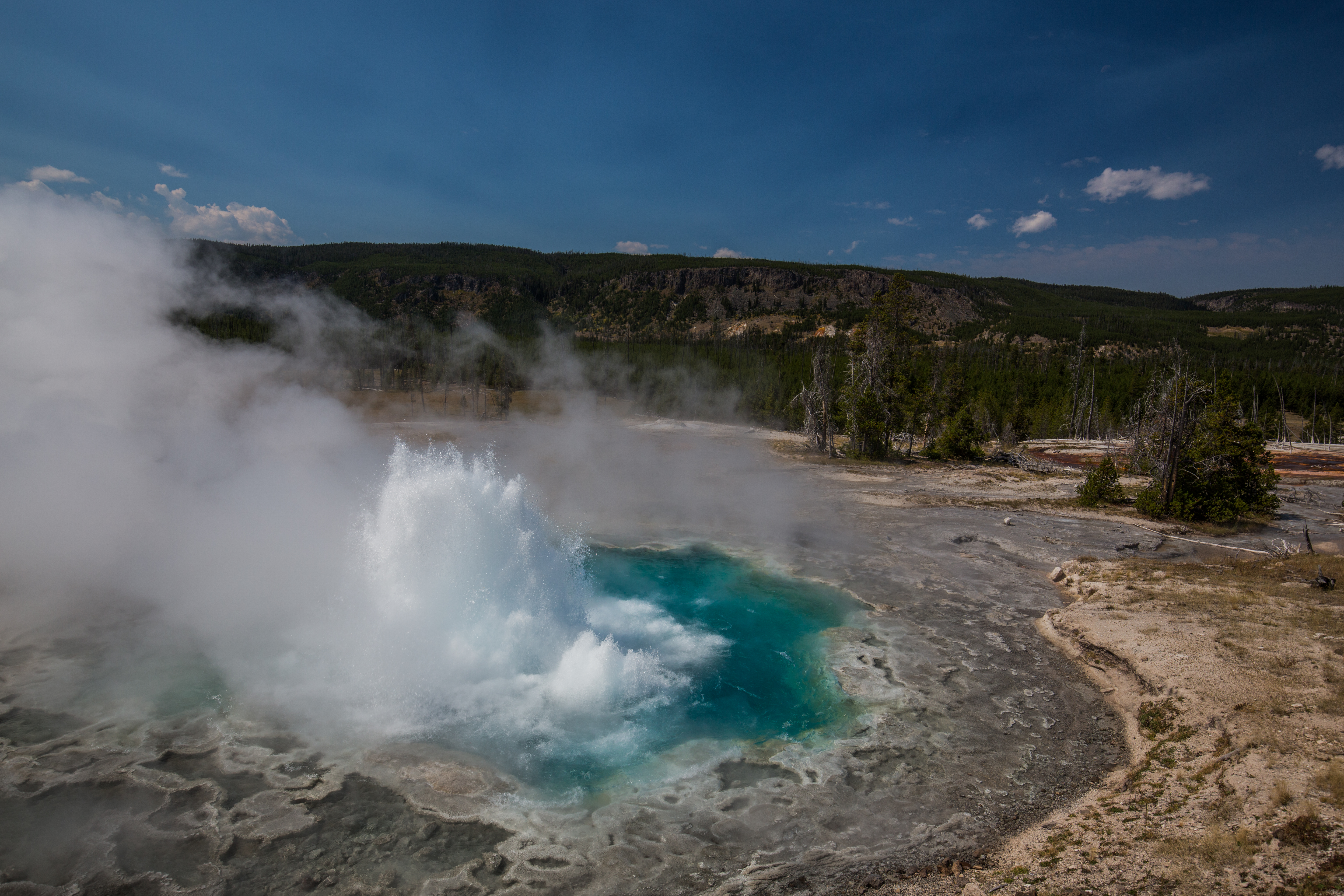 Aretemisia Geyser during eruption